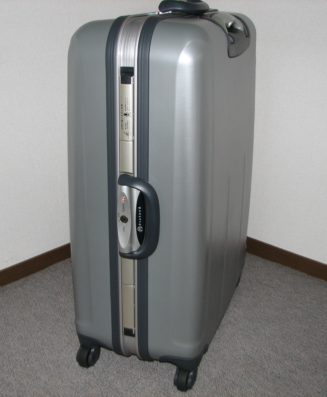 Suitcase